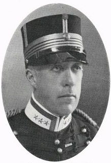 Swedish colonel Thor Lagerheim (1875-1953)